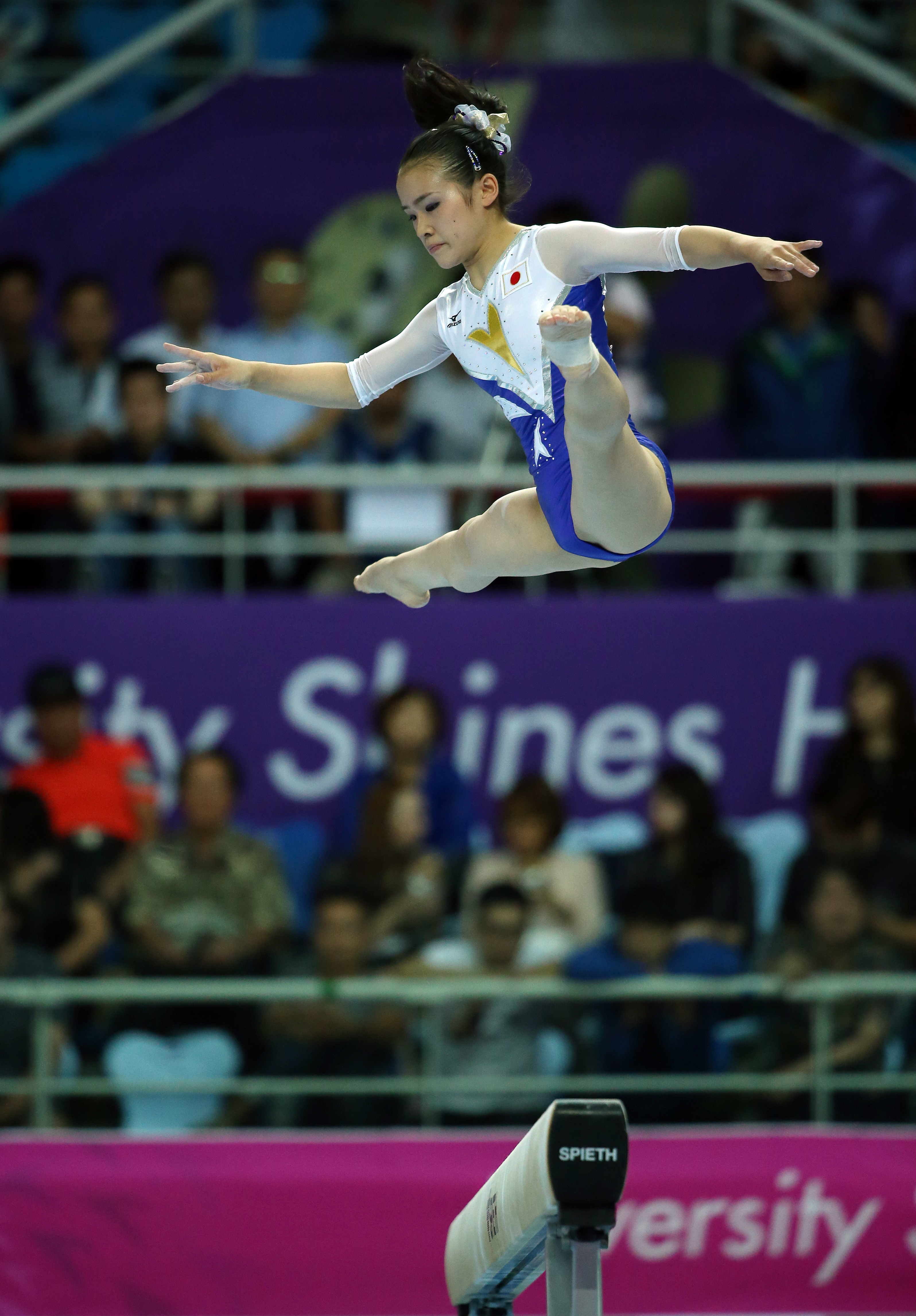 Incheon Asian Games 2014